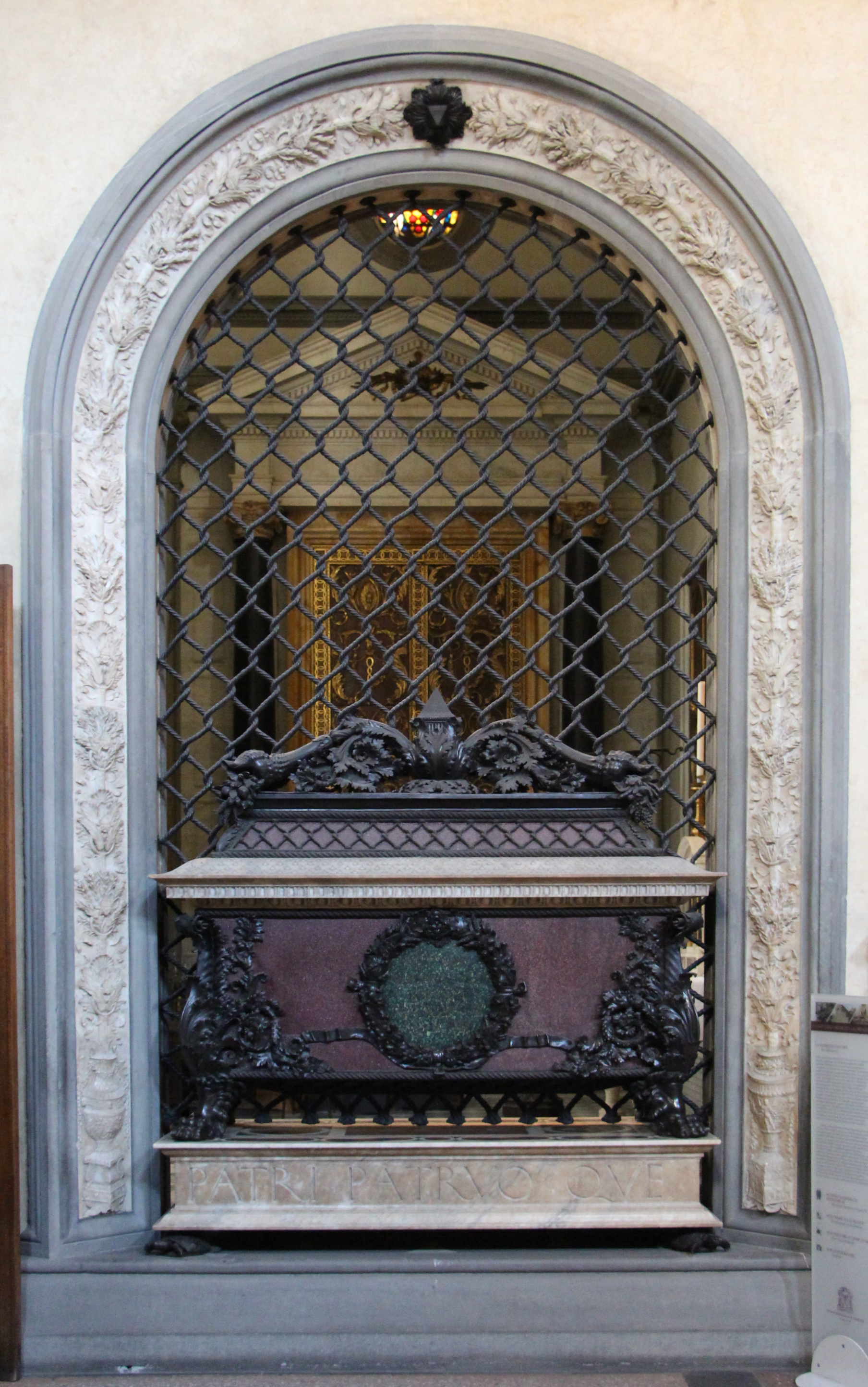 Piero and Giovanni de' Medici's tomb